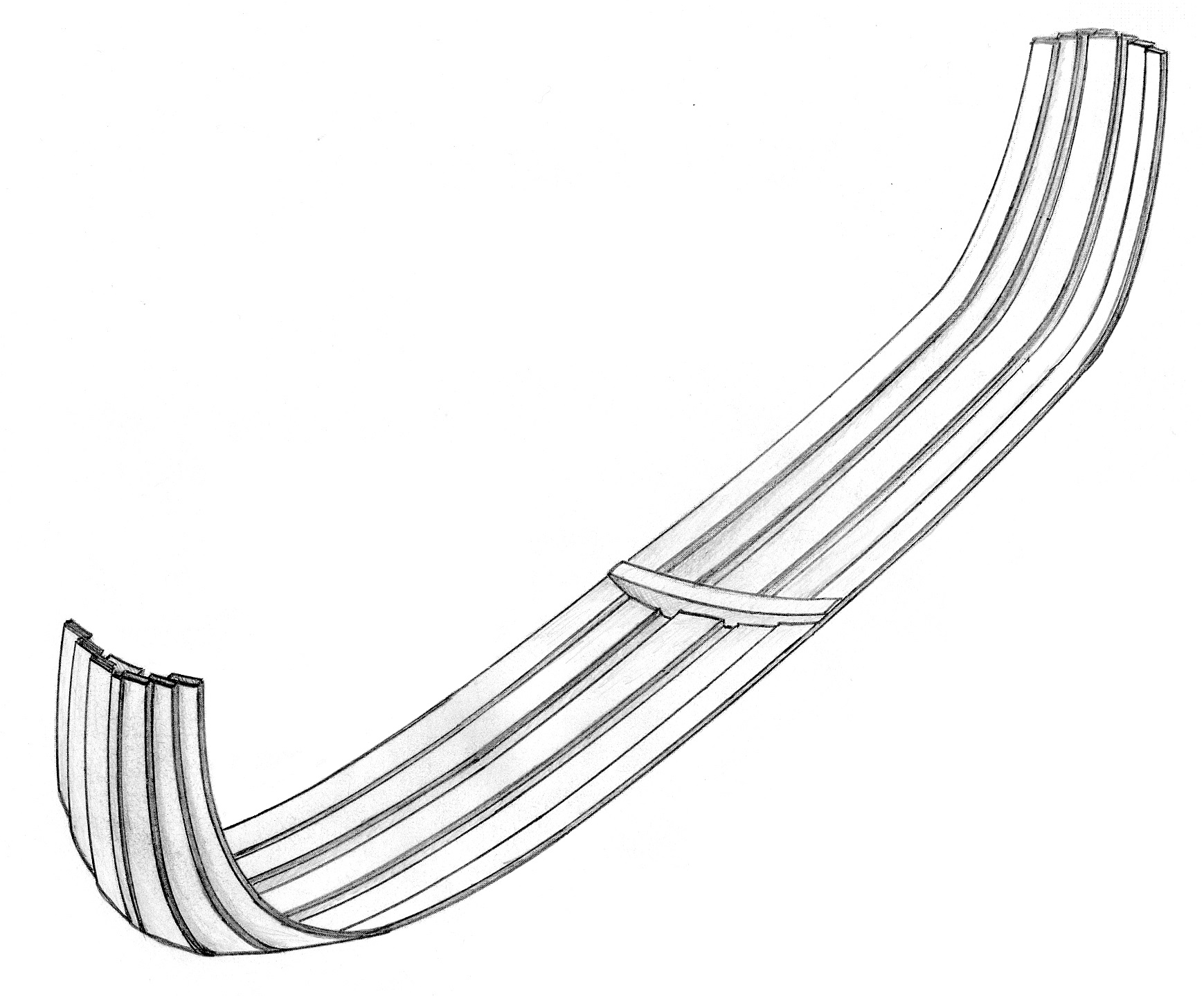 Own work, based on illustration from Hutchinson G. Medieval Ship and Shiping. 1997, p.14, fig. 1.7. Conjectural fiagram of the run of the lovest strakes in a hulk (National Martitime Museum)